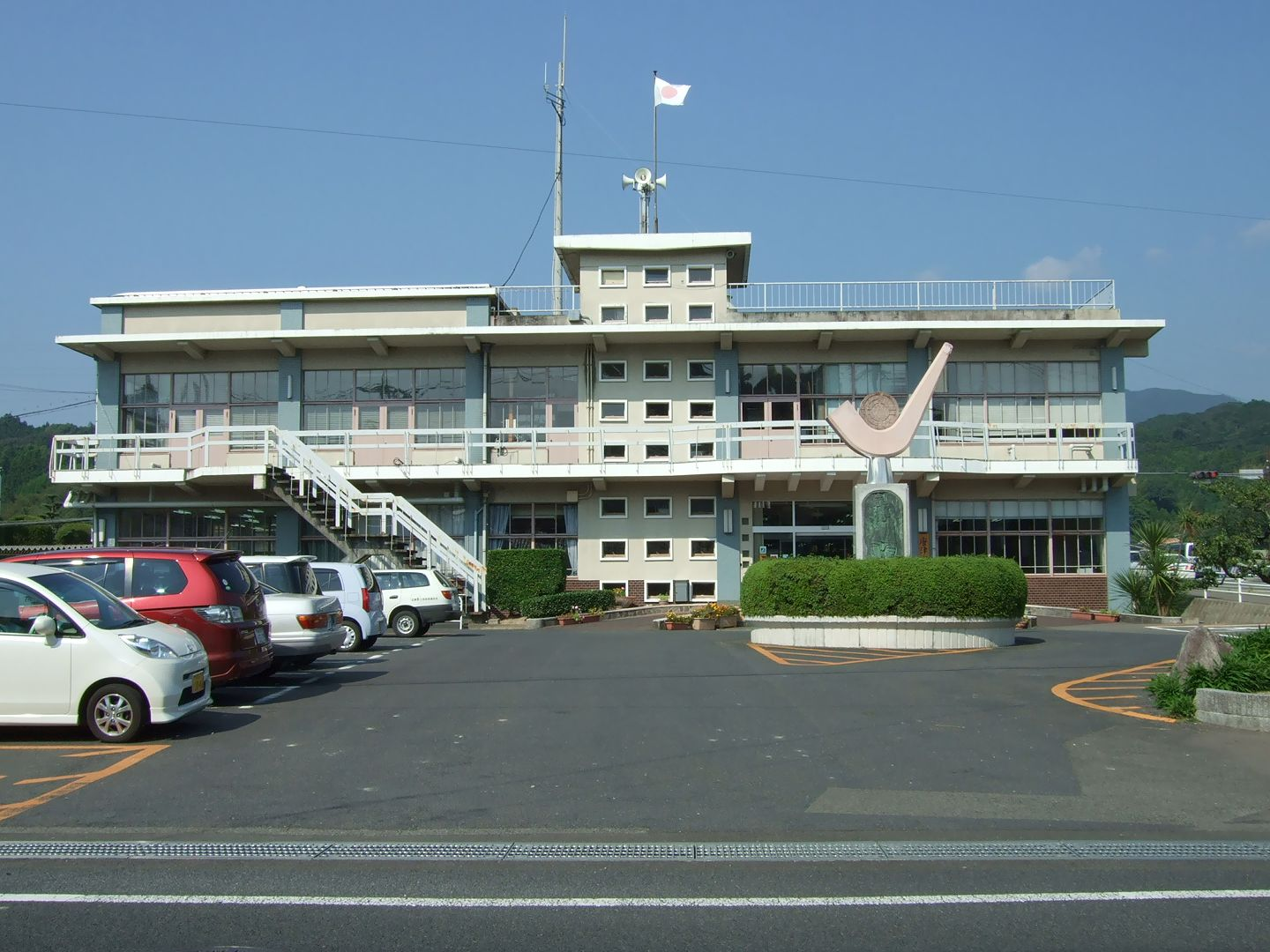 Karatsu City Office Ochi Branch